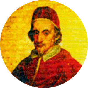 Portait of Pope Innocent XI in the Basilica of Saint Paul Outside the Walls, Rome